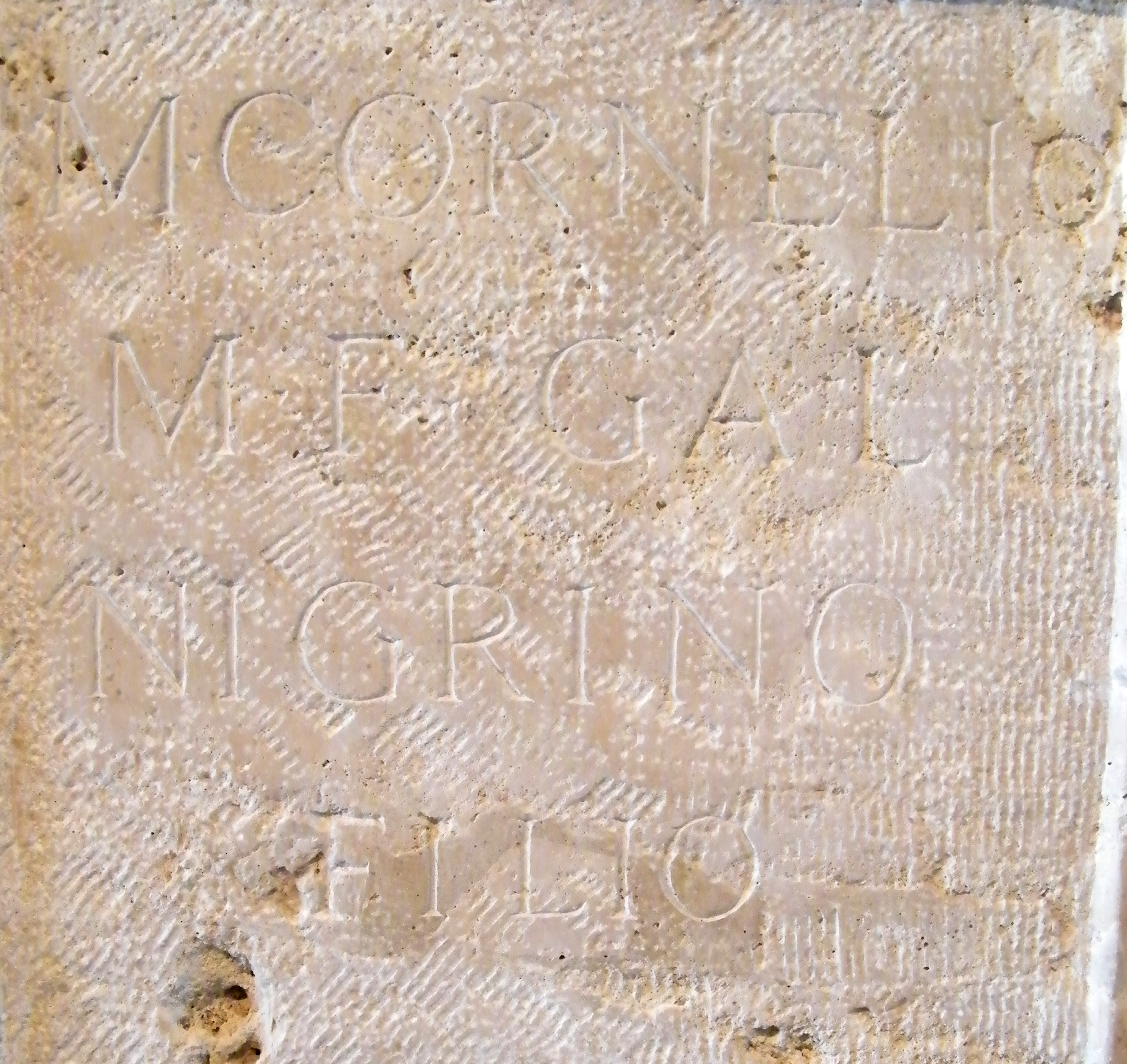 Inscription dedicated to Marcus Cornelius Nigrinus Curiatius Materno, consulate senator, who was from Edeta, and governor of Syryia. Nigrinus was a rival of Trajano with serious hopes of proclaiming himself Emperor. Honorary inscription exhibited in the Archaelogical Museum of Lliria (MALL). Hispania Epigraphica 13100 Epigraphische Datenbank Heidelberg HD012305